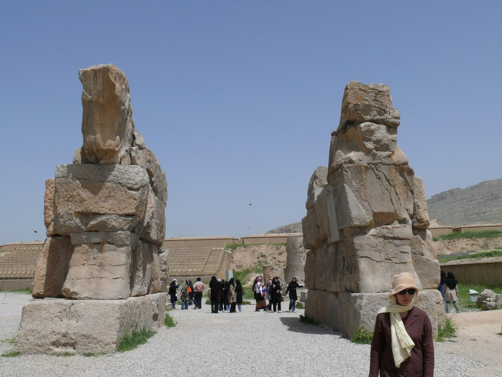 Unachieved gate, Persepolis, Iran